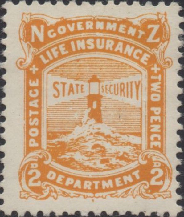 New Zealand Life Insurance 1905 no VR